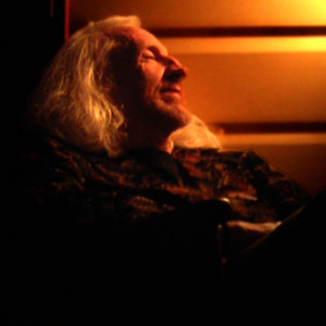 Daevid Allen in Brisbane (Australia).